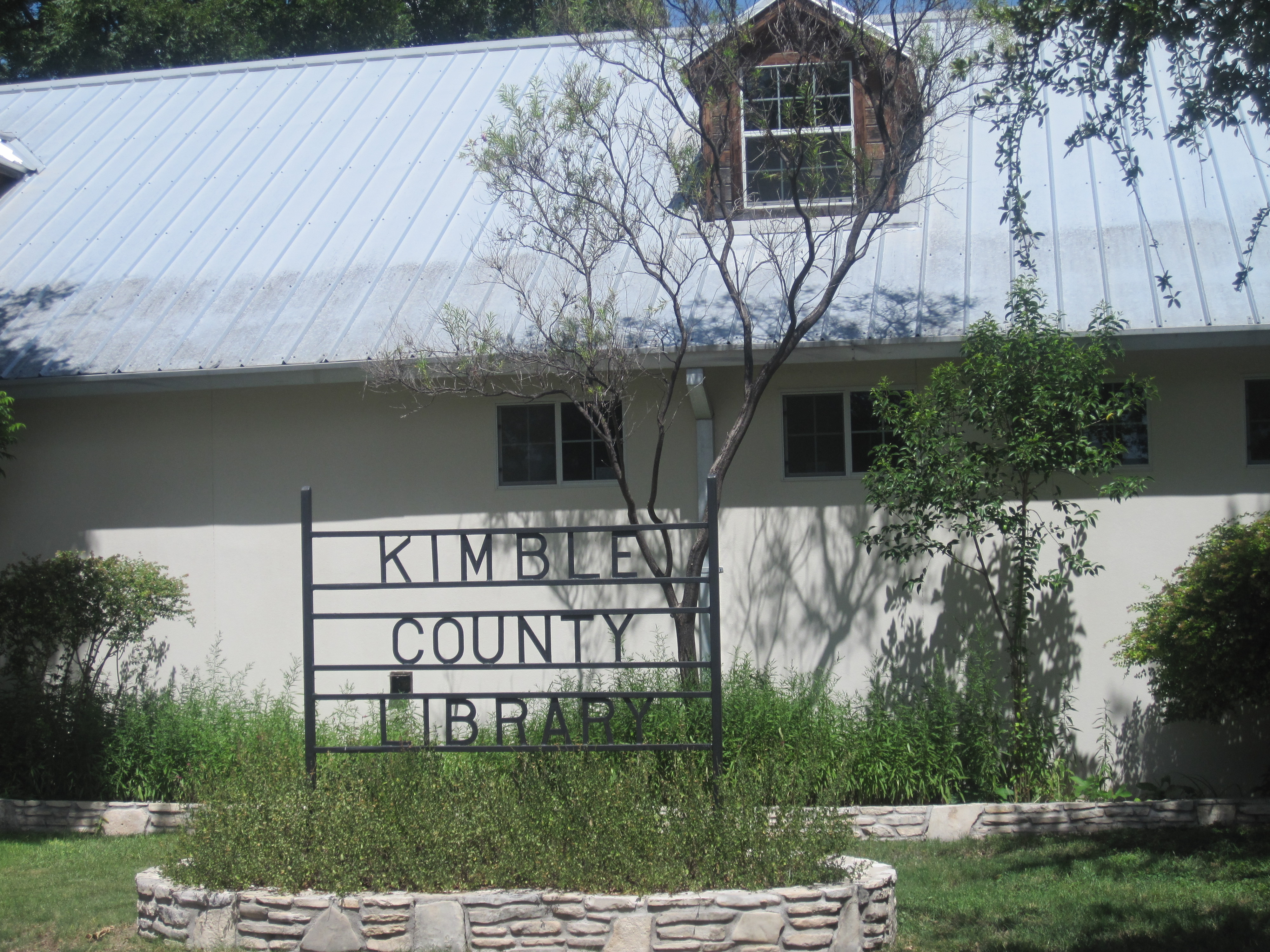 I took picture with Canon camera in Junction, TX.